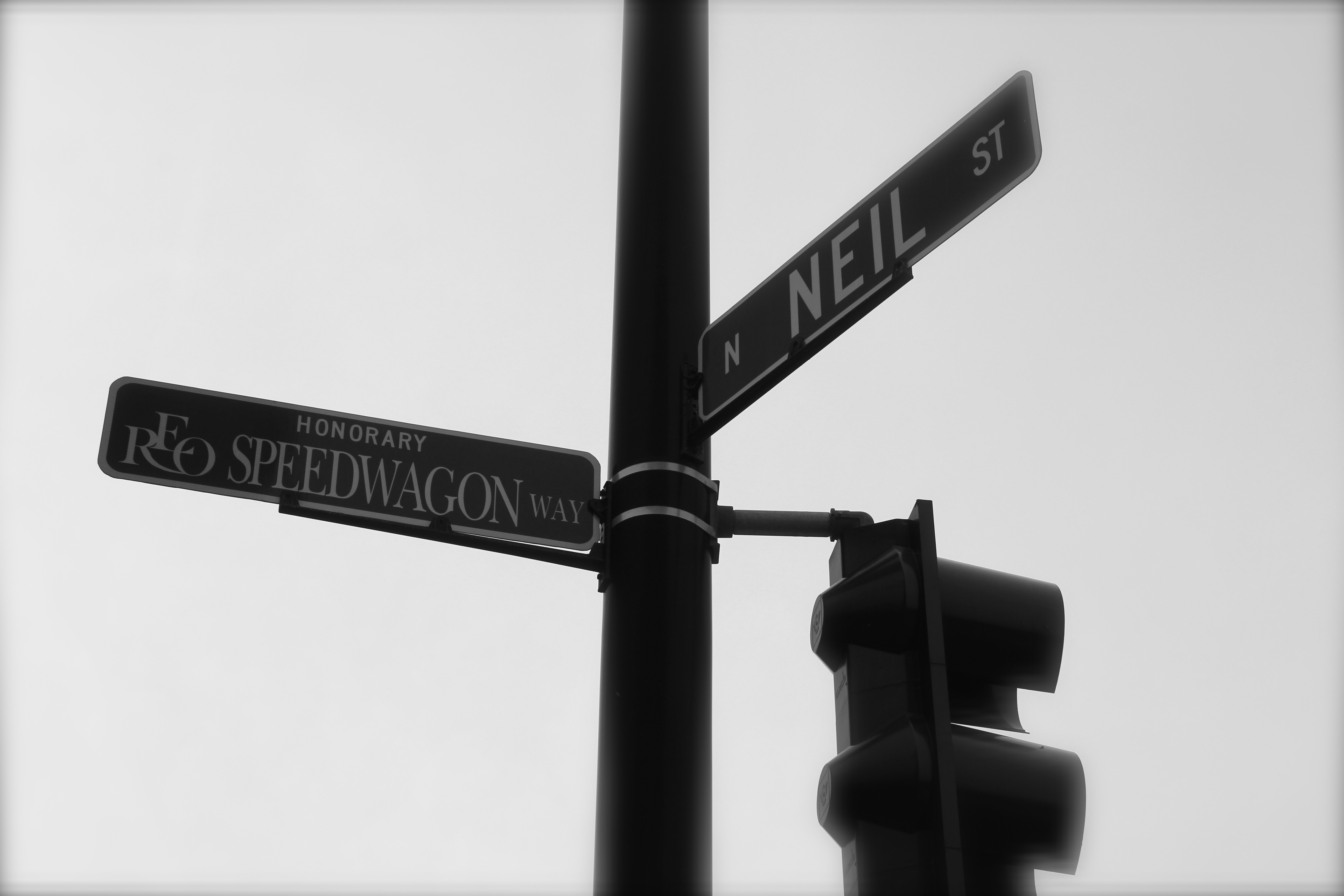 Honorary REO Speedwagon Street Sign in Champaign, Illinois